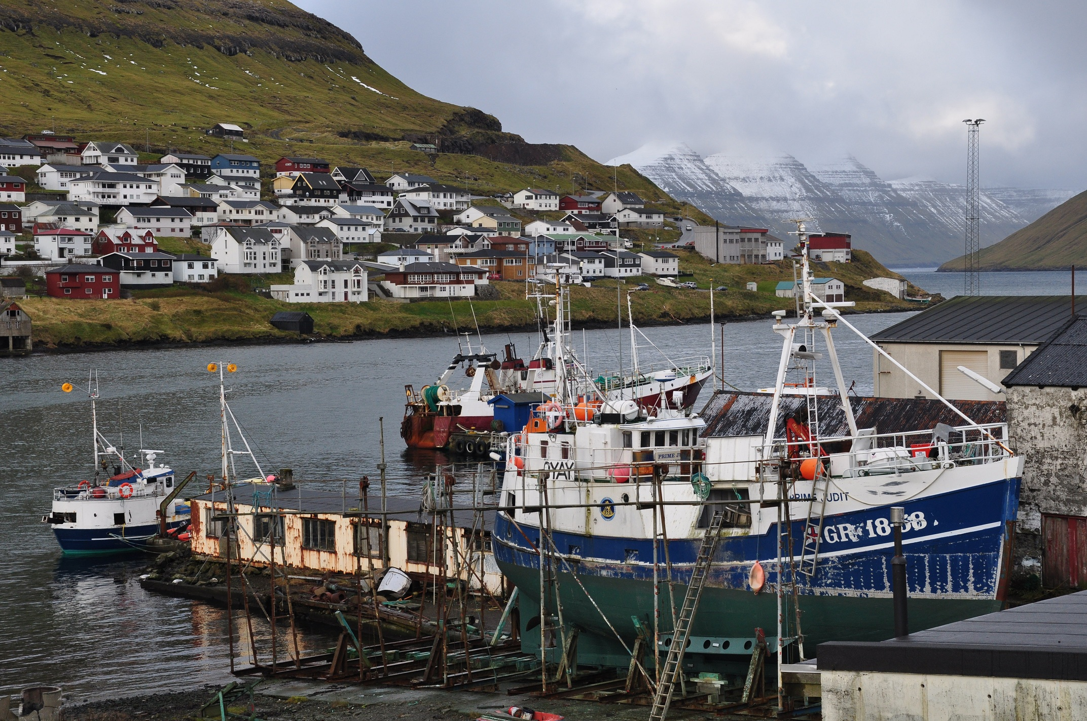 Harbour scene in Klaksvík (Borðoy, Faroe Islands, Denmark). The snowy mountains on the right are on the island of Kalsoy.